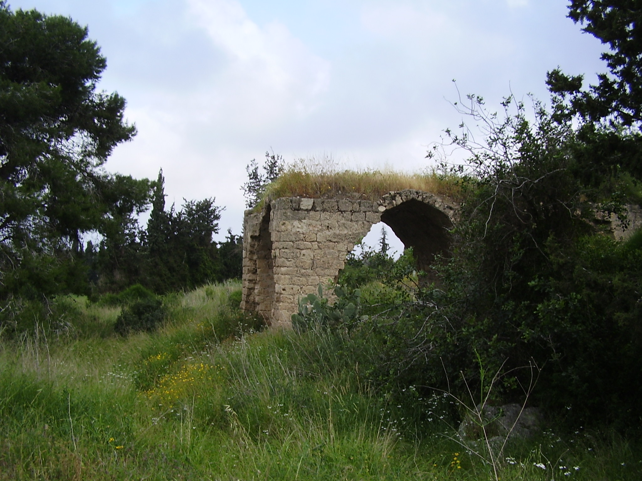 khurvat shimri